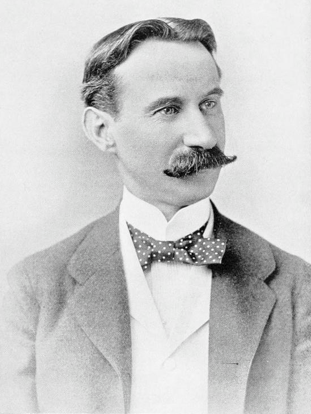 Portrait of E.F. Albee